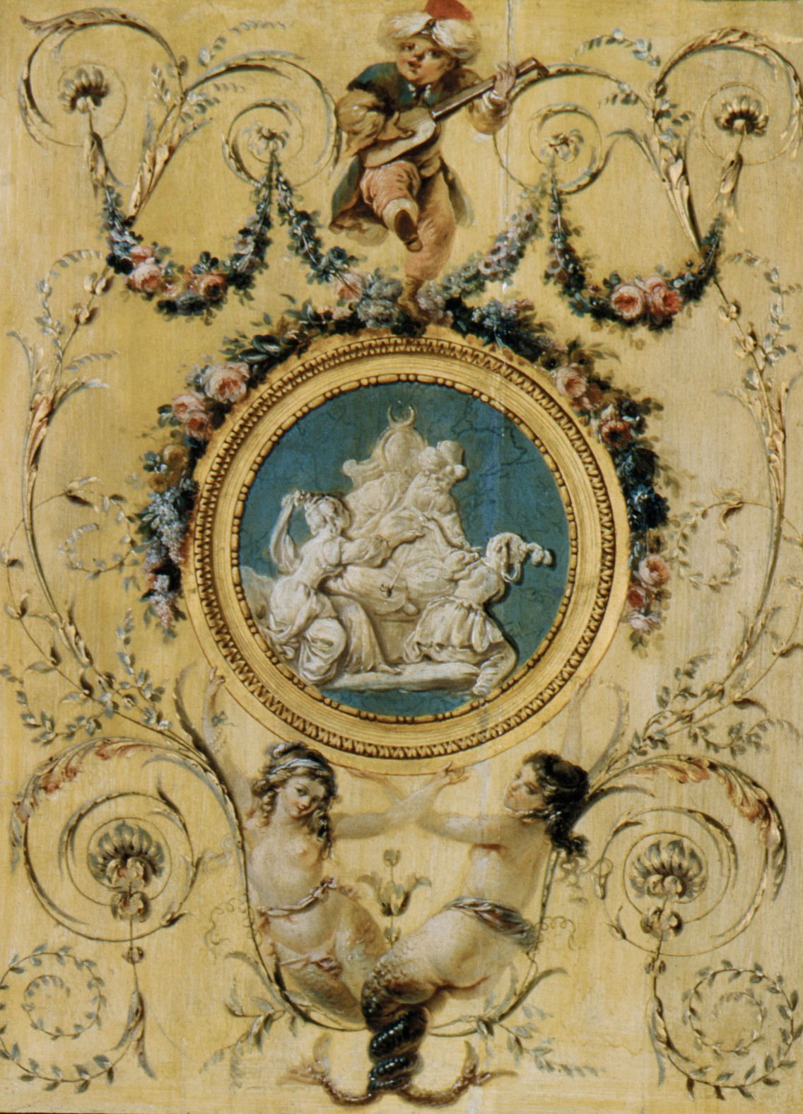 French; Decorative panel; Paintings-Decorative